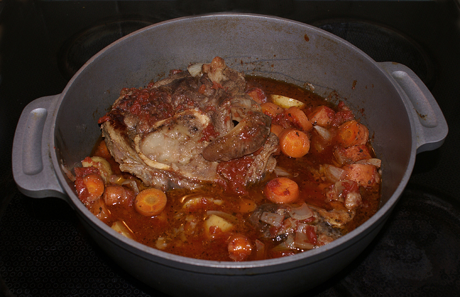 Well braised ossobuco made by Veal shank, white wine and different kind of herbs.